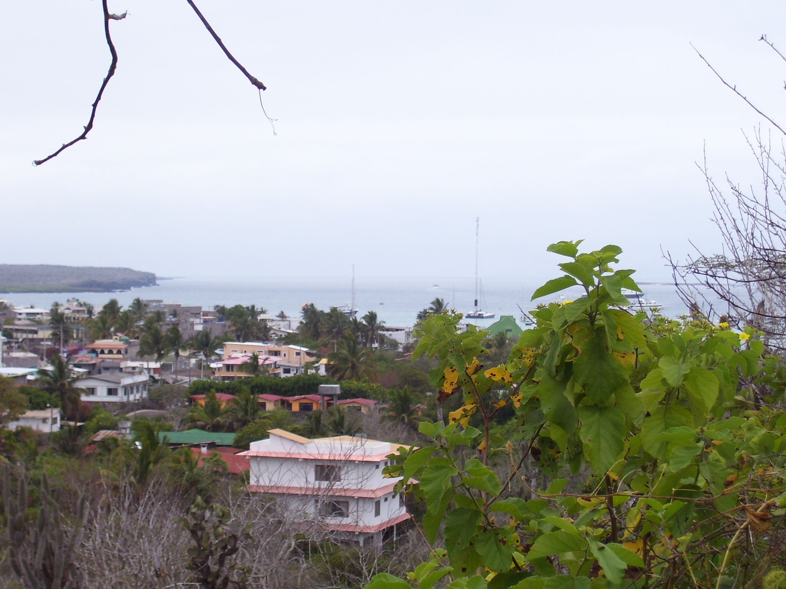 View of Santa Cruz, Galapagos